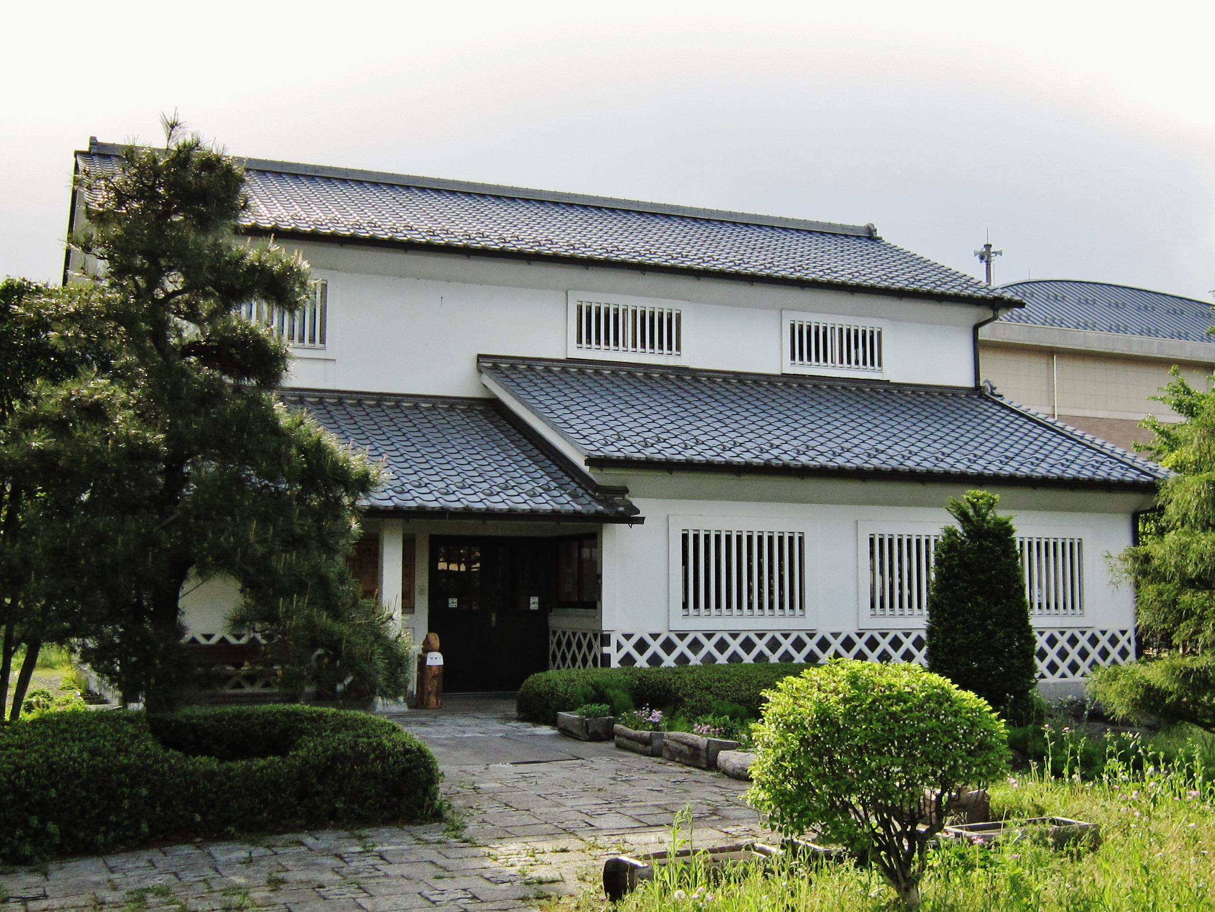 Yoshimi Usui museum.